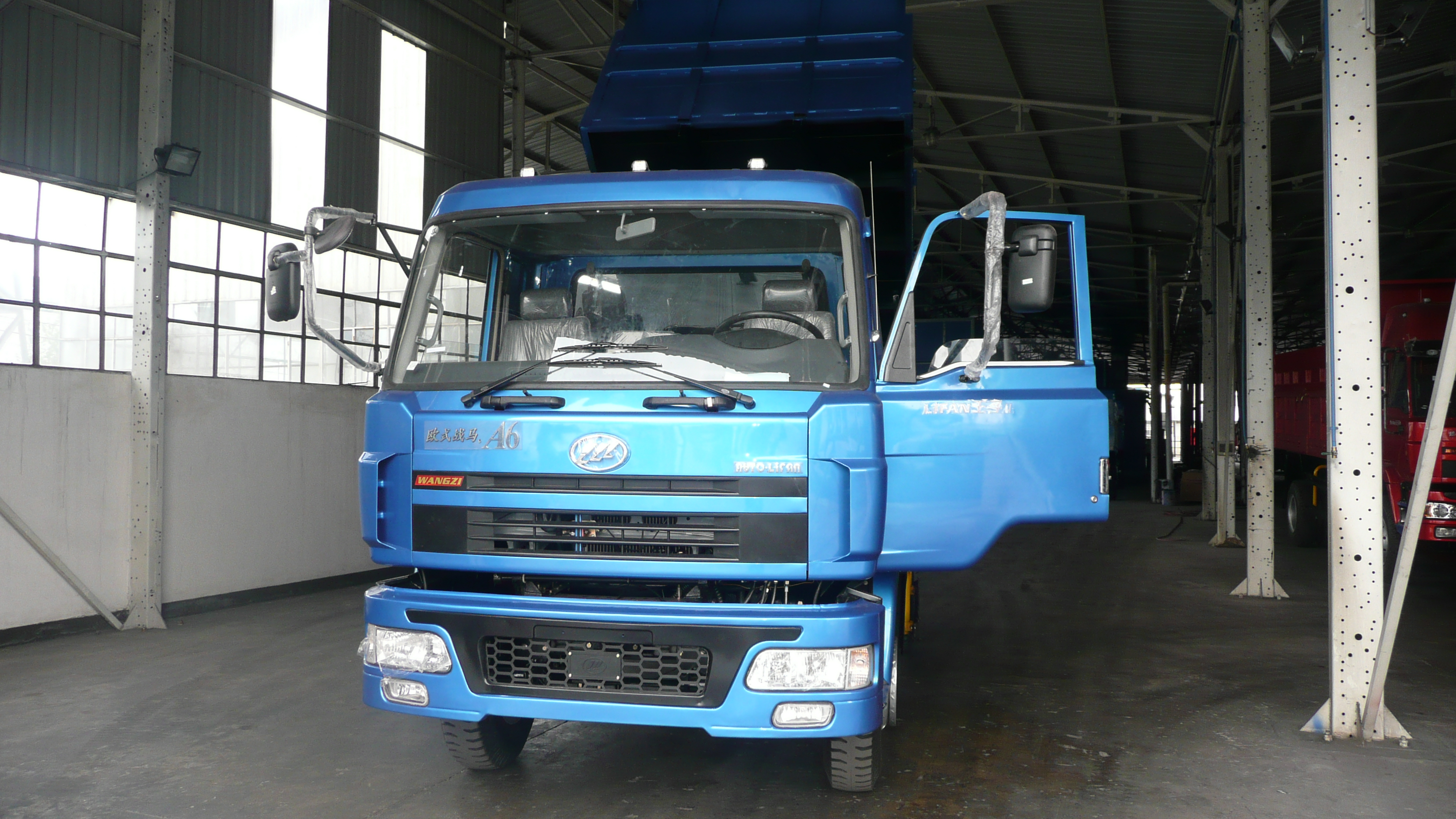 Lifan Truck, Yunnan Lifan Junma Vehicle Co., Ltd., Dali